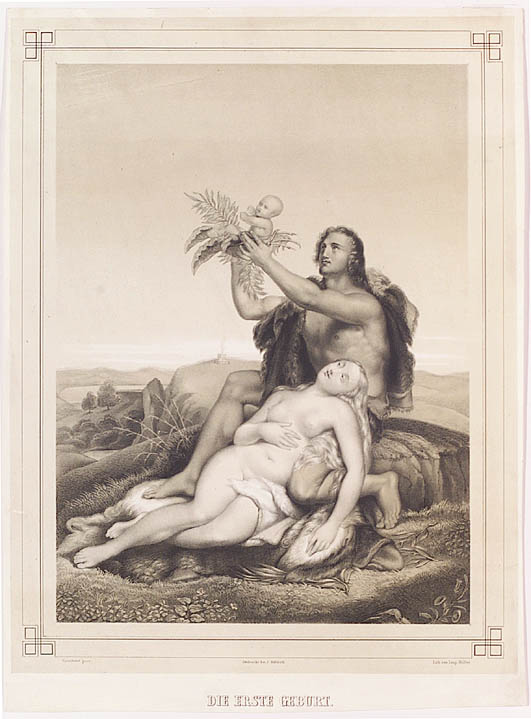 The First Birth, Austrian Lithograph, ca.1850